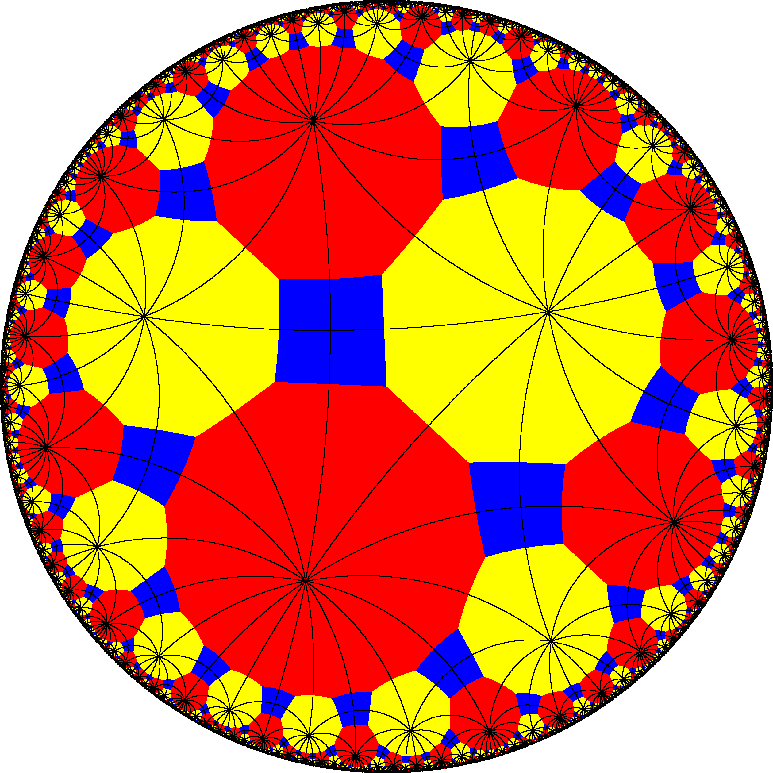 Overlay File:H2_tiling_268-7.png with edge-filter of File:H2checkers_268.png